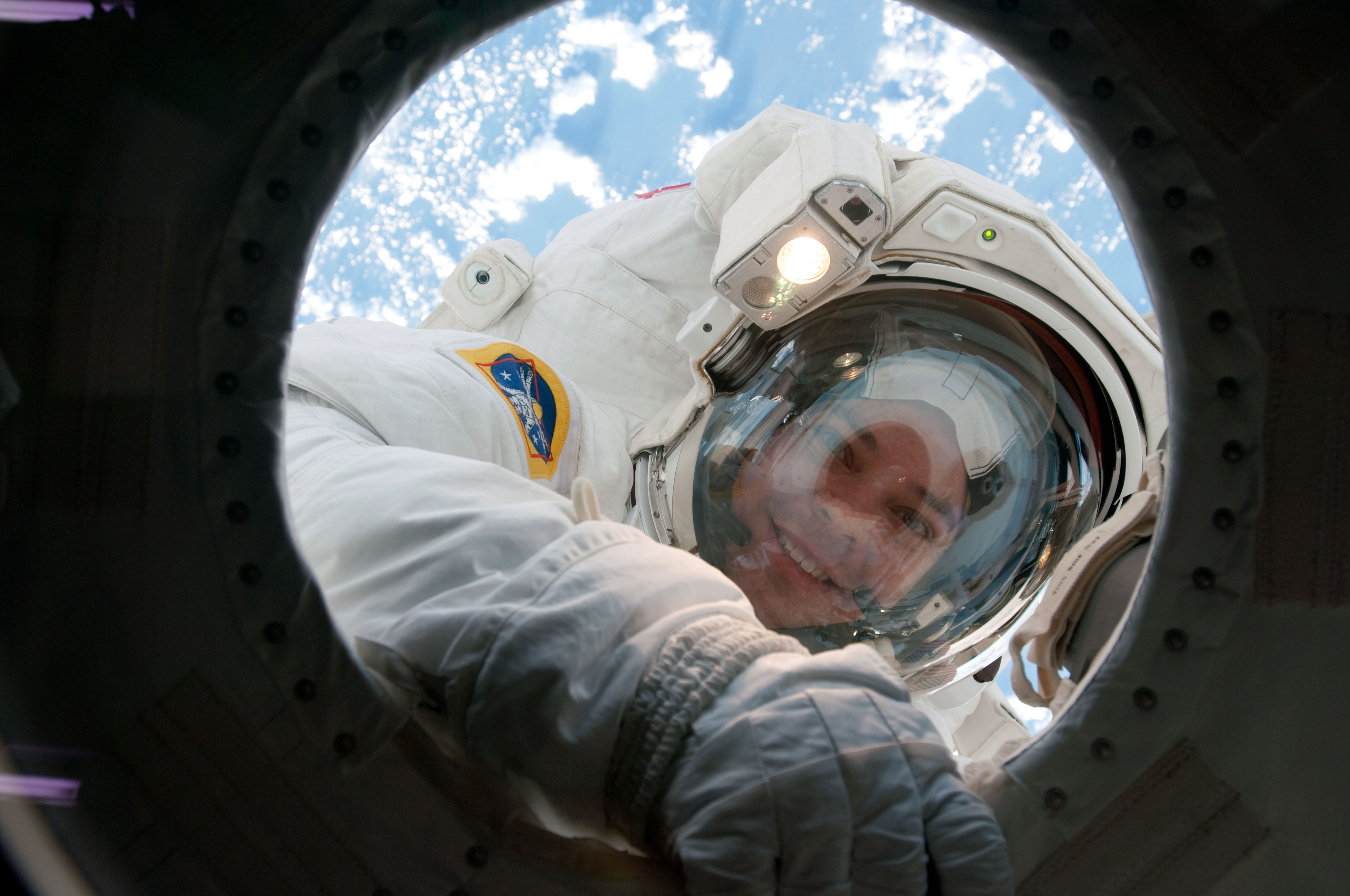 NASA astronaut Robert Behnken, STS-130 mission specialist, participates in the mission's second session of extravehicular activity (EVA) as construction and maintenance continue on the International Space Station. During the five-hour, 54-minute spacewalk, Behnken and astronaut Nicholas Patrick (out of frame), mission specialist, connected two ammonia coolant loops, installed thermal covers around the ammonia hoses, outfitted the Earth-facing port on the Tranquility node for the relocation of its Cupola, and installed handrails and a vent valve on the new module.